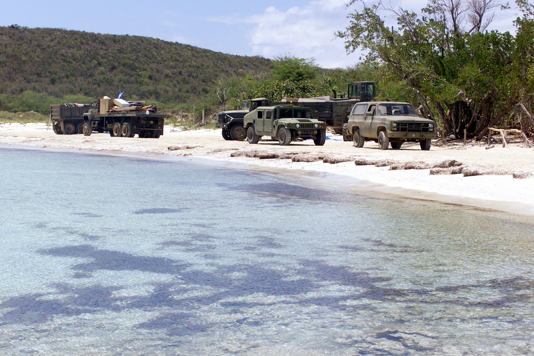 A view of military vehicles parked along the beach at Camp Garcia on Vieques Island, Puerto Rico, as US Military and Department of Justice agents reclaimed the federal property on which protesters were residing for over a year. (Released to Public)